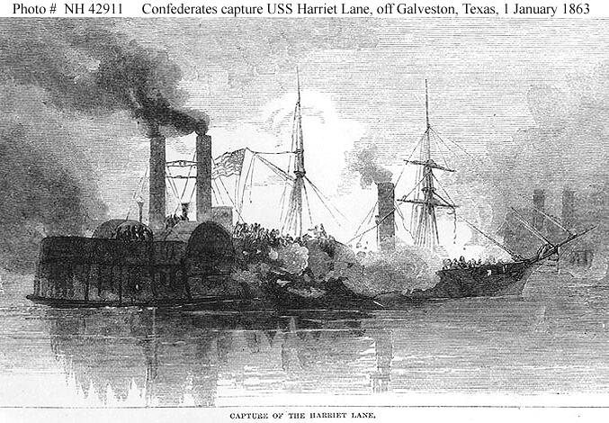 Confederate gunboat Bayou City captures USS Harriet Lane during the Battle of Galveston, Texas, 1 January 1863. Engraving depicting Confederates boarding Harriet Lane from C.S. gunboats Neptune and Bayou City.[1]